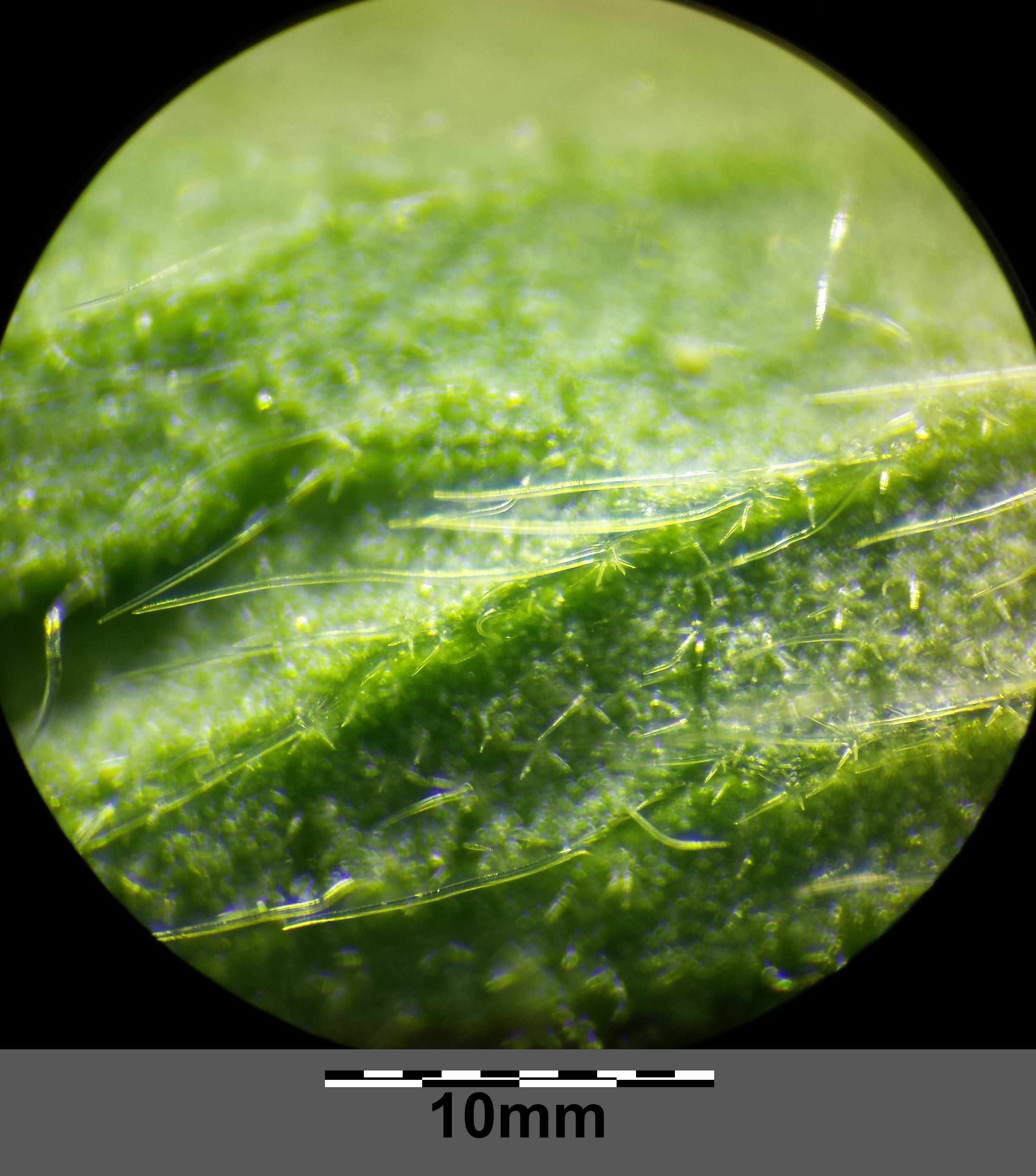 Bottom side of leaf with stellate hairs Taxonym: Potentilla pusilla ss Fischer et al. EfÖLS 2008 ISBN 978-3-85474-187-9 Location: Neue Donau, Vienna-Floridsdorf - ca. 160 m a.s.l. Habitat: dry slope